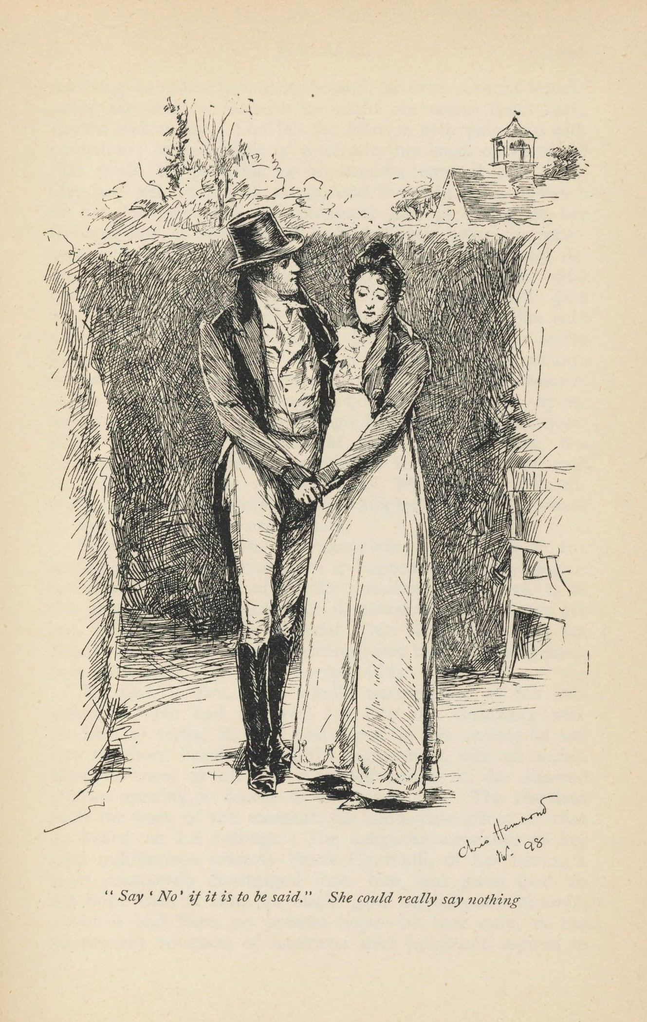 "Say 'No' if it is to be be said. She could really say nothing" - an illustration by Chris Hammond of an 1898 edition of the novel Emma by Jane Austen (1775-1817). Houghton Typ 805.98.1770, Houghton Library, Harvard University